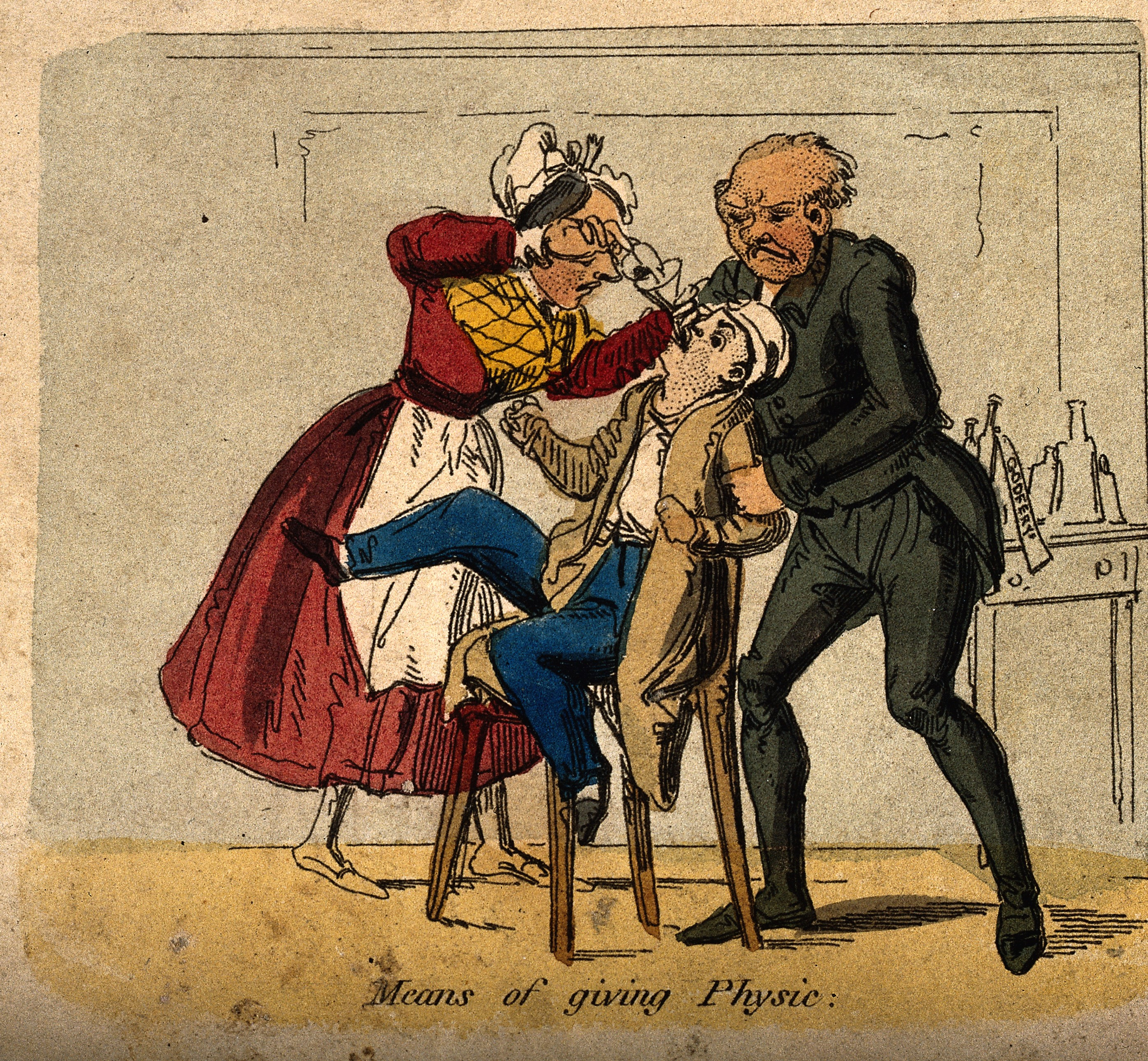 A doctor restraining a young man while a lady funnel-feeds his medicine. Coloured etching, c. 1840. Iconographic Collections Keywords: PHYSICIAN; ic; Physicians; DOCTOR